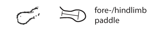 Standard Event System character depiction